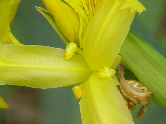 Species: Iris germanica Family: Iridaceae Image No. 5